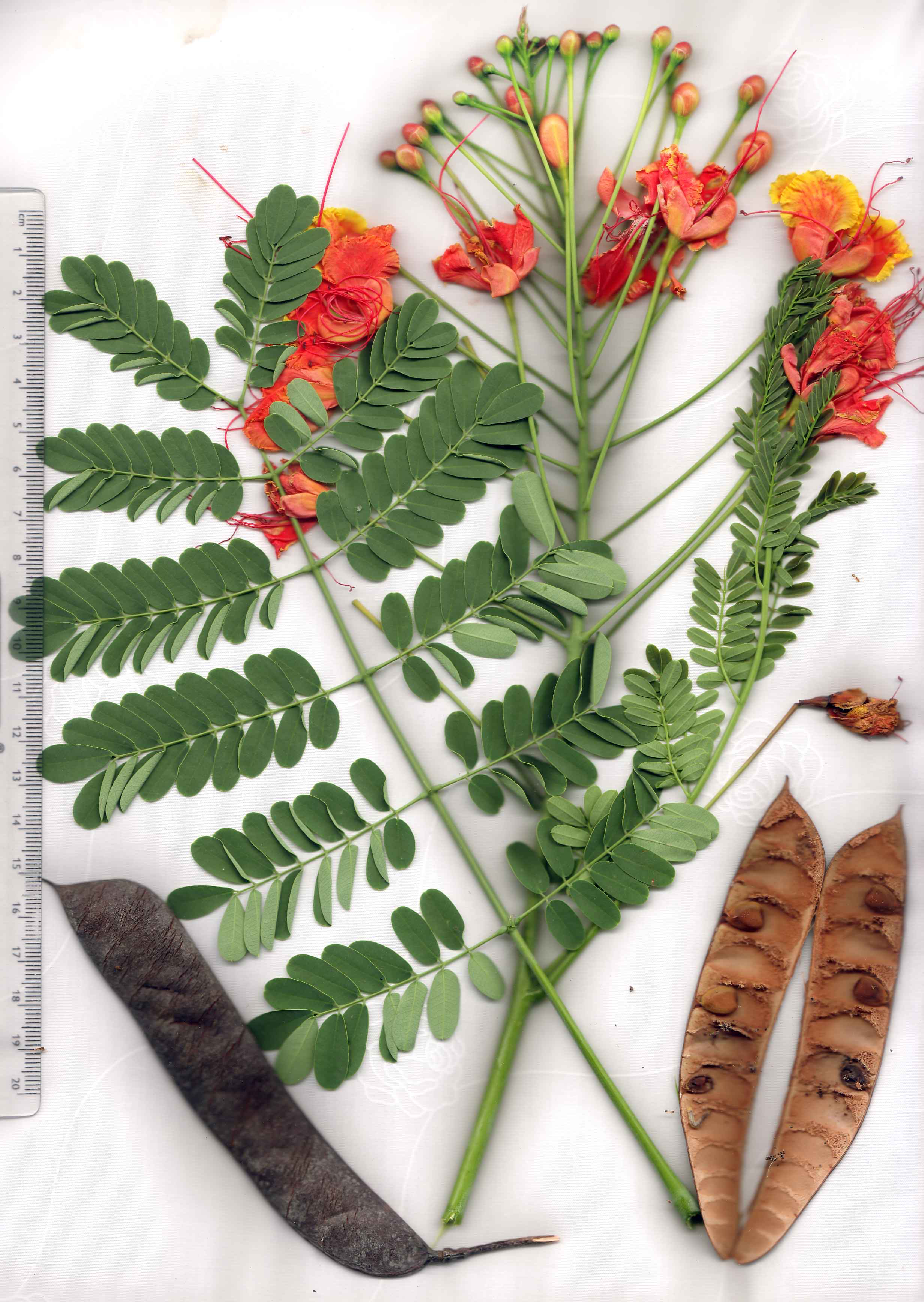 Caesalpinia pulcherrima flowers, leaves, seedpods, seeds collected in Chonburi, Thailand